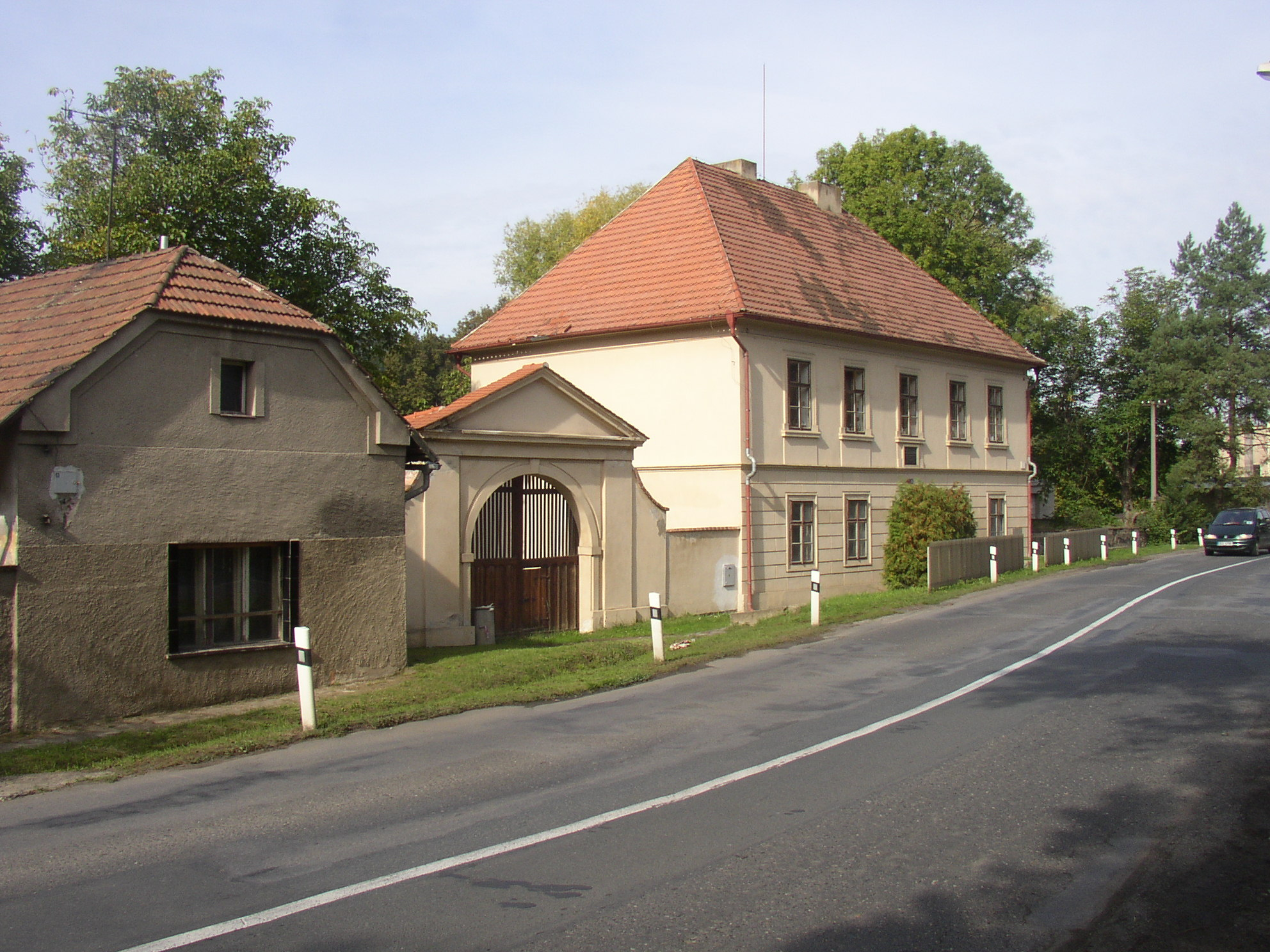 Rectory in Minice, suburb of Kralupy nad Vltavou, Czech Republic. The present building dates from 1826. A plaque above entrance, installed in 1934, commemorates Jan Valerián Jirsík, one of Czech national revival champions and later Bishop of České Budějovice, who was stationed here as priest between 1832 and 1846.